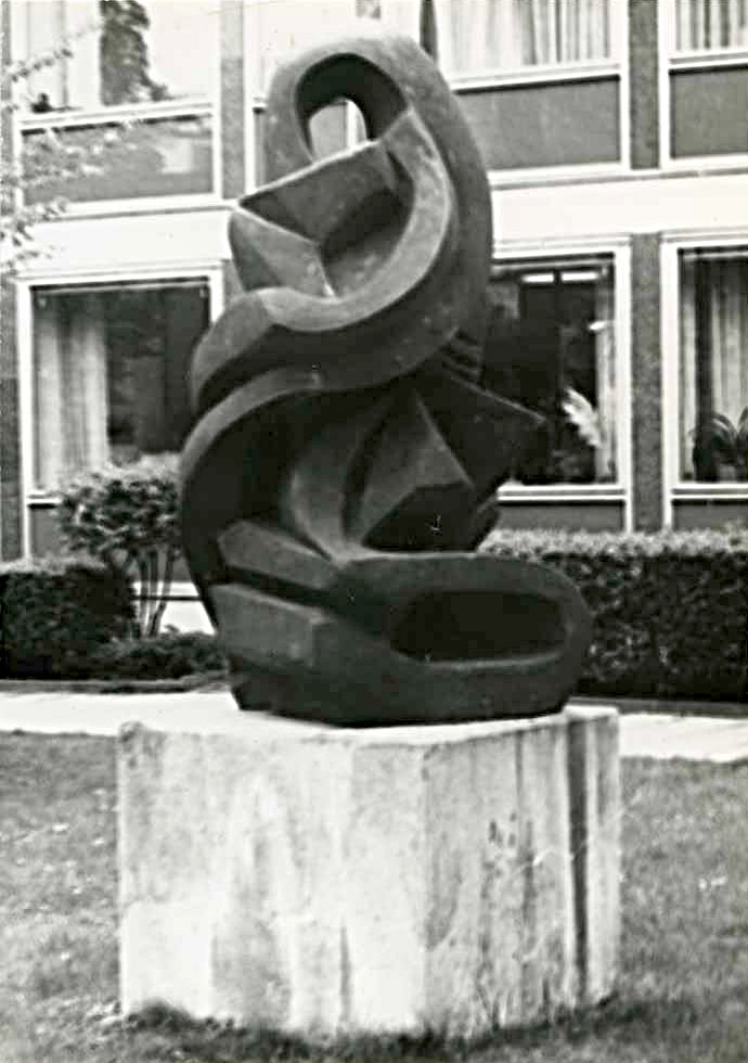 Die Aufstrebende. Sculpture by Ulla Scholl.